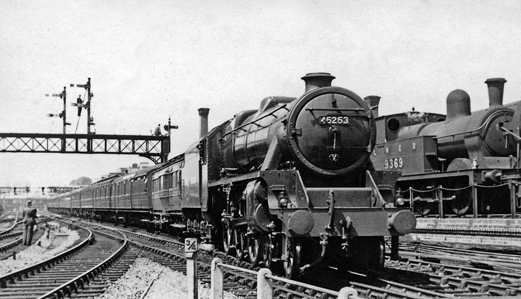 Express from Manchester arriving at Marylebone, with an LMS locomotive during the Exhanges. View NW away from the terminus. LMS Stanier Class 5 4-6-0 No. 45253 was taking part in the extensive Exchange Trials of 1948 just after Nationalisation of the Railways, working the Eastern Region (ex-Great Central) 08.25 express from Manchester via the Woodhead Route and Sheffield (Victoria); a dynamometer car is behind the locomotive for close examination of its performance. On the right is an ex-GC 0-6-2T in the Milk Siding. (I was not the only photographer: another is on the left and two up on the signal gantry)